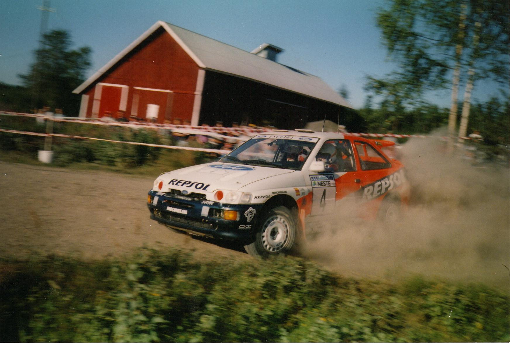 Carlos Sainz in 1000 Lakes Rally 1996 with Ford Escort RS Cosworth